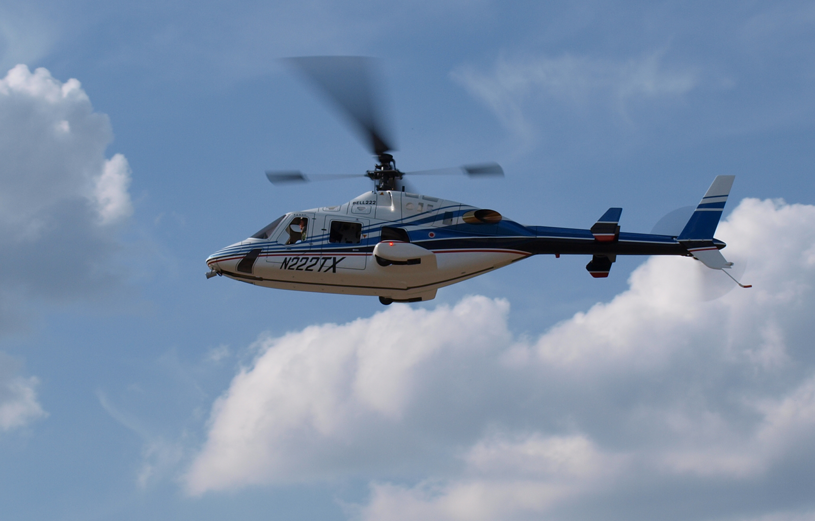 RC helicopter model (Bell 222) powered by batteries.